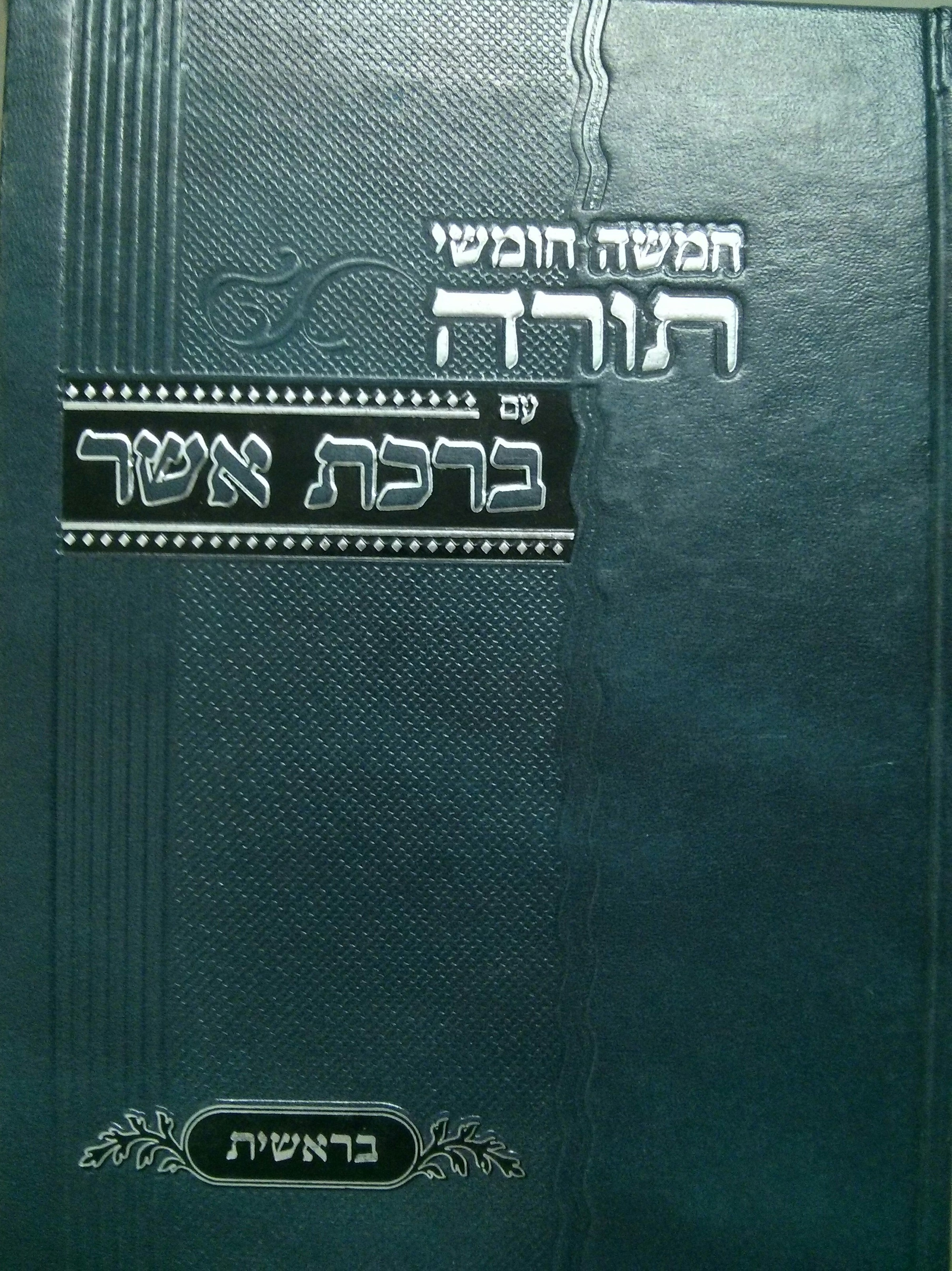 birkat asher